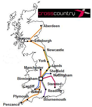 CrossCountry route map 2009